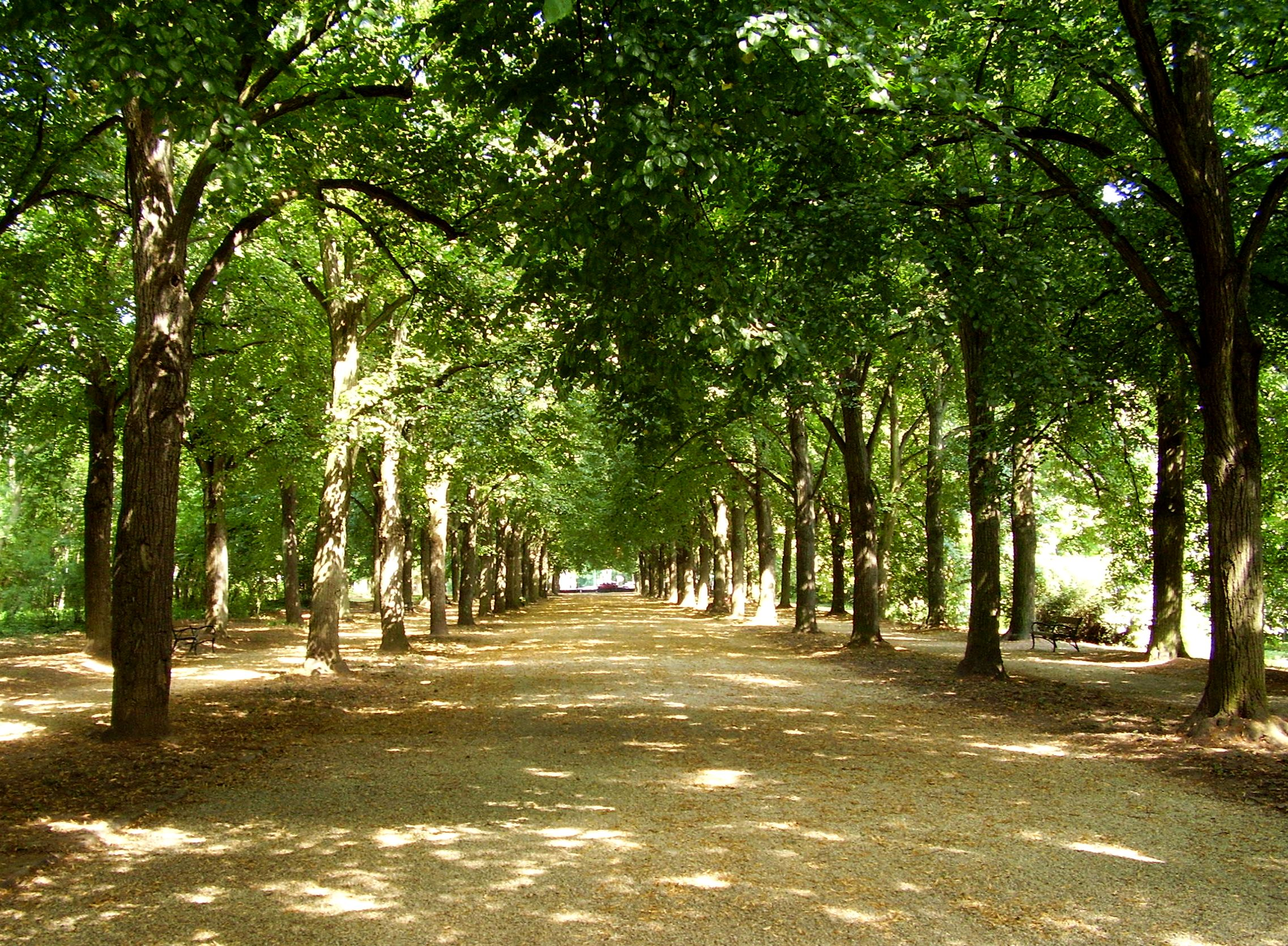 Erzsébet-park, Gödöllő.